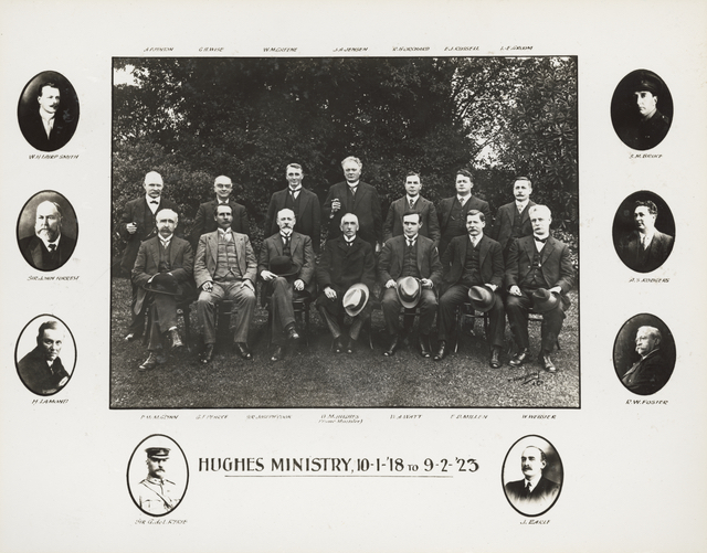 The Hughes Ministry between 1918 and 1923